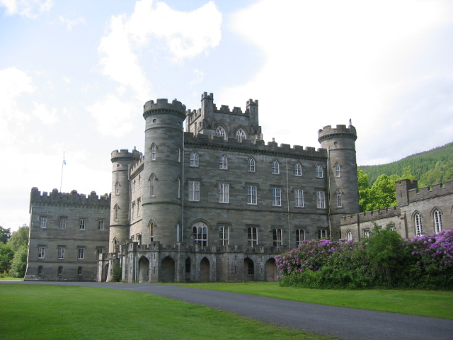 Taymouth Castle, Kenmore, Scotland. Photo taken by Dudesleeper on June 6, 2003.